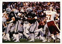 A football card from the 1986 Jeno's Pizza NFL football card stickers set of Los Angeles Raiders running back Marcus Allen rushing the ball against the Washington Redskins in Super Bowl XVIII. The card is numbered #52 in the set. The back of the card reads: ALLEN'S ON THE LOOSE AGAIN Raiders running back Marcus Allen follows guard Mickey Marvin into the Washington secondary, as Los Angeles overwhelms the Redskins 38-9 in Super Bowl XVIII. Allen rushed for a Super Bowl-record 191 yards, including a 74-yard scoring run, and was named the game's most valuable player.